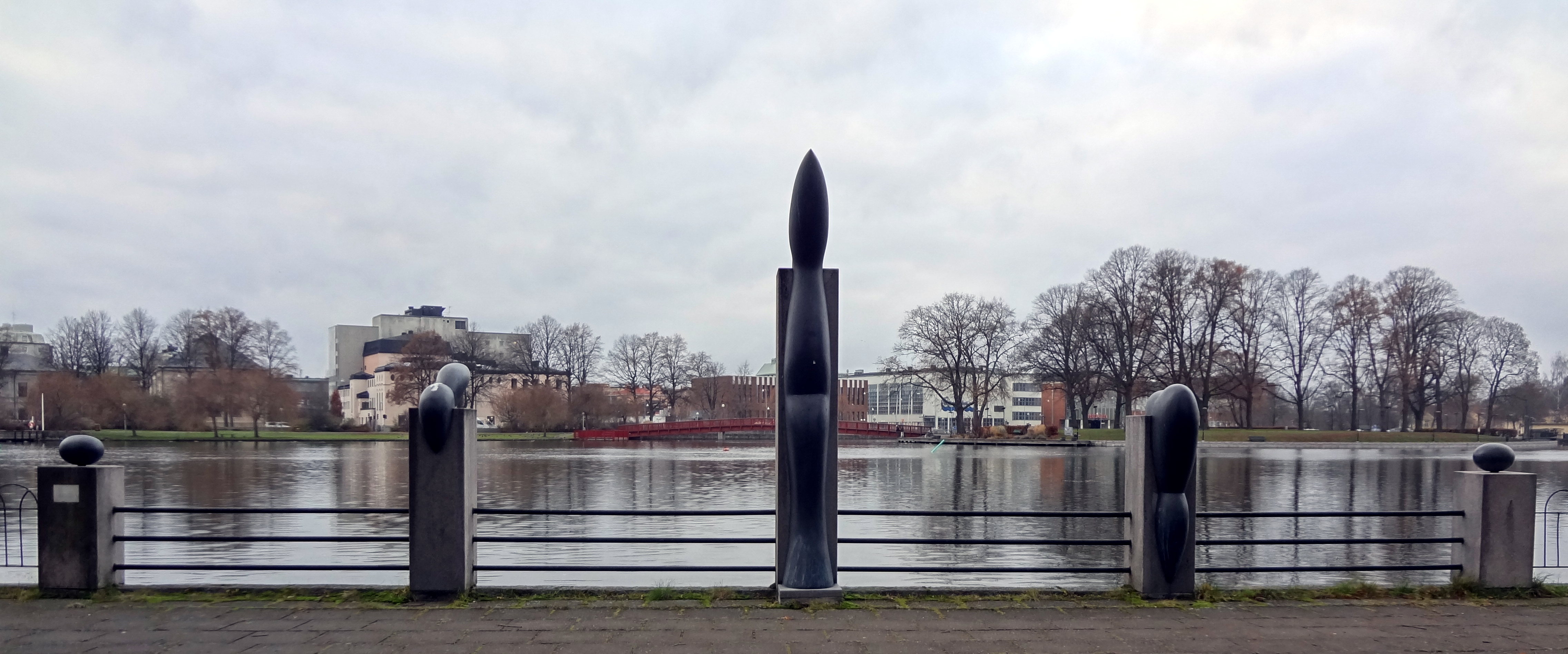 Sculpture "Vingspel" by Bo Englund 1987. Placed in Stadsparken i Eskilstuna. Photo taken november 2012.